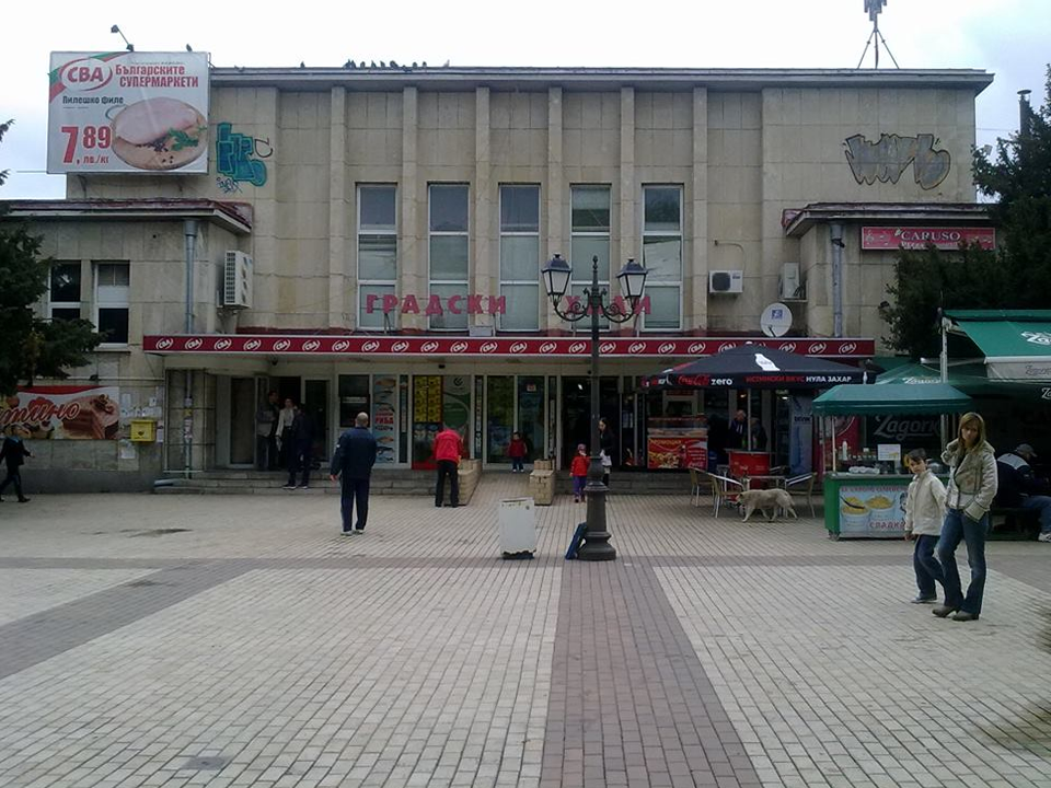 The so-called "Gradski Hali" in Rousse, Bulgaria, 2014.